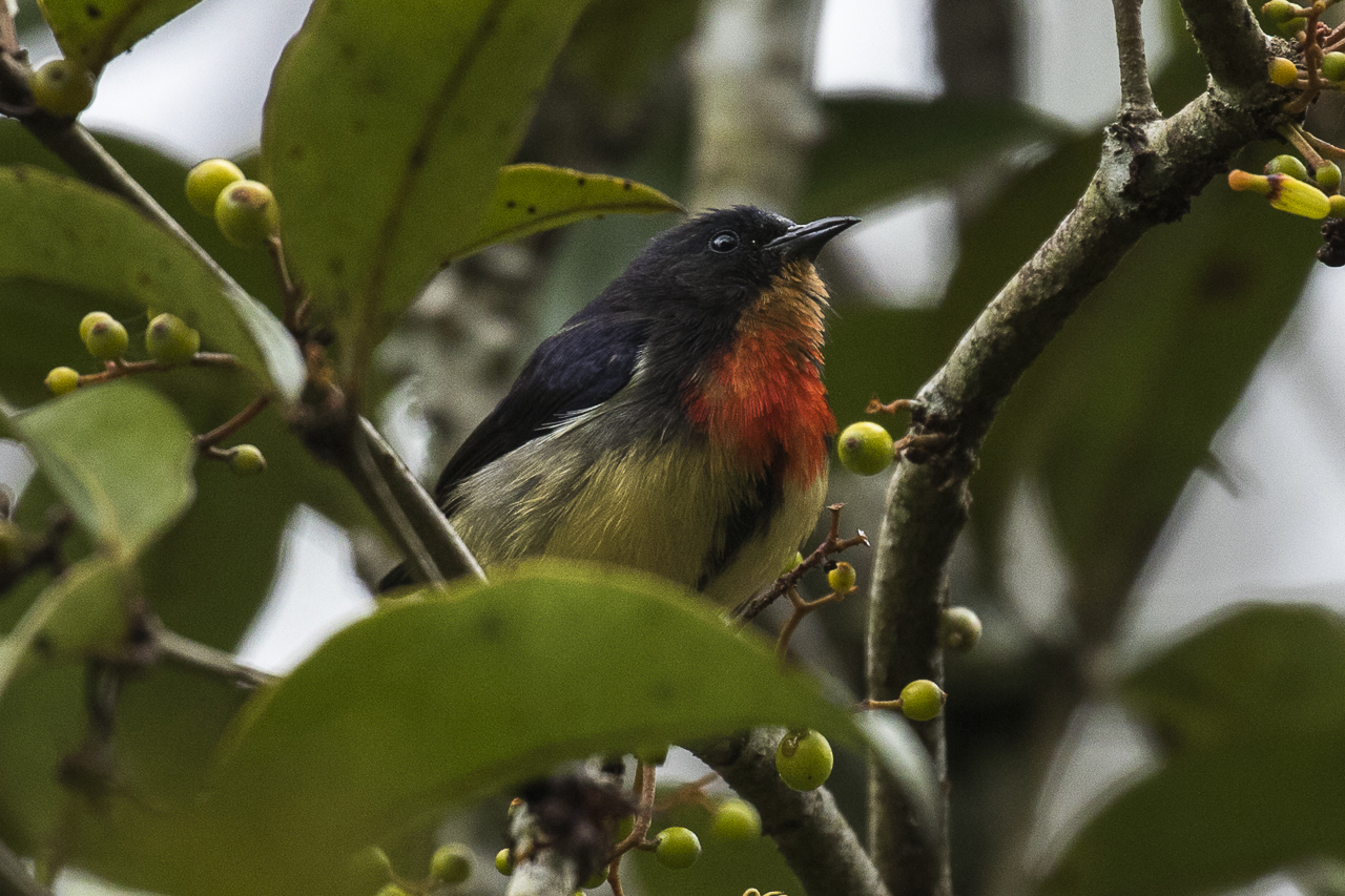 Blood-breasted Flowerpecker - Cibodas Bot.Gardens_MG_3664